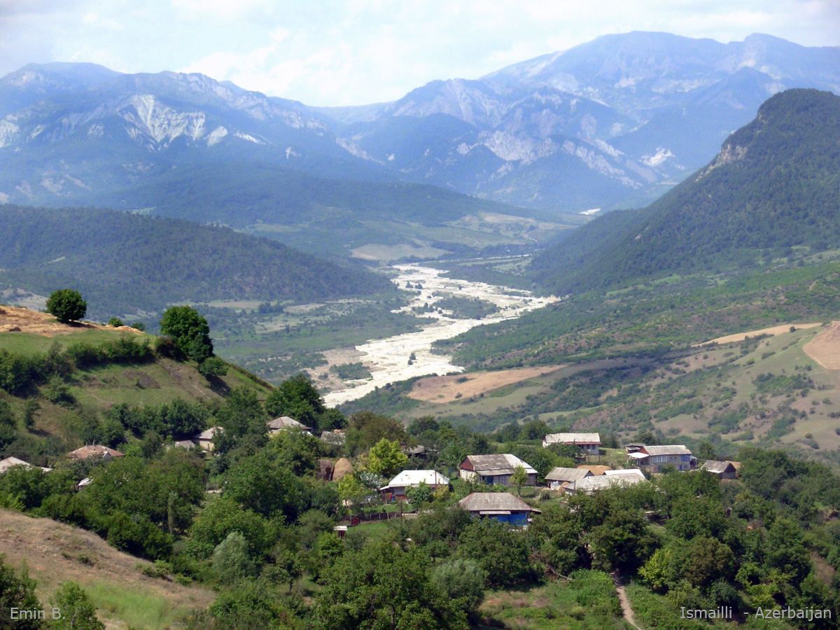 Mountain landscape, Ismailli, Azerbaijan